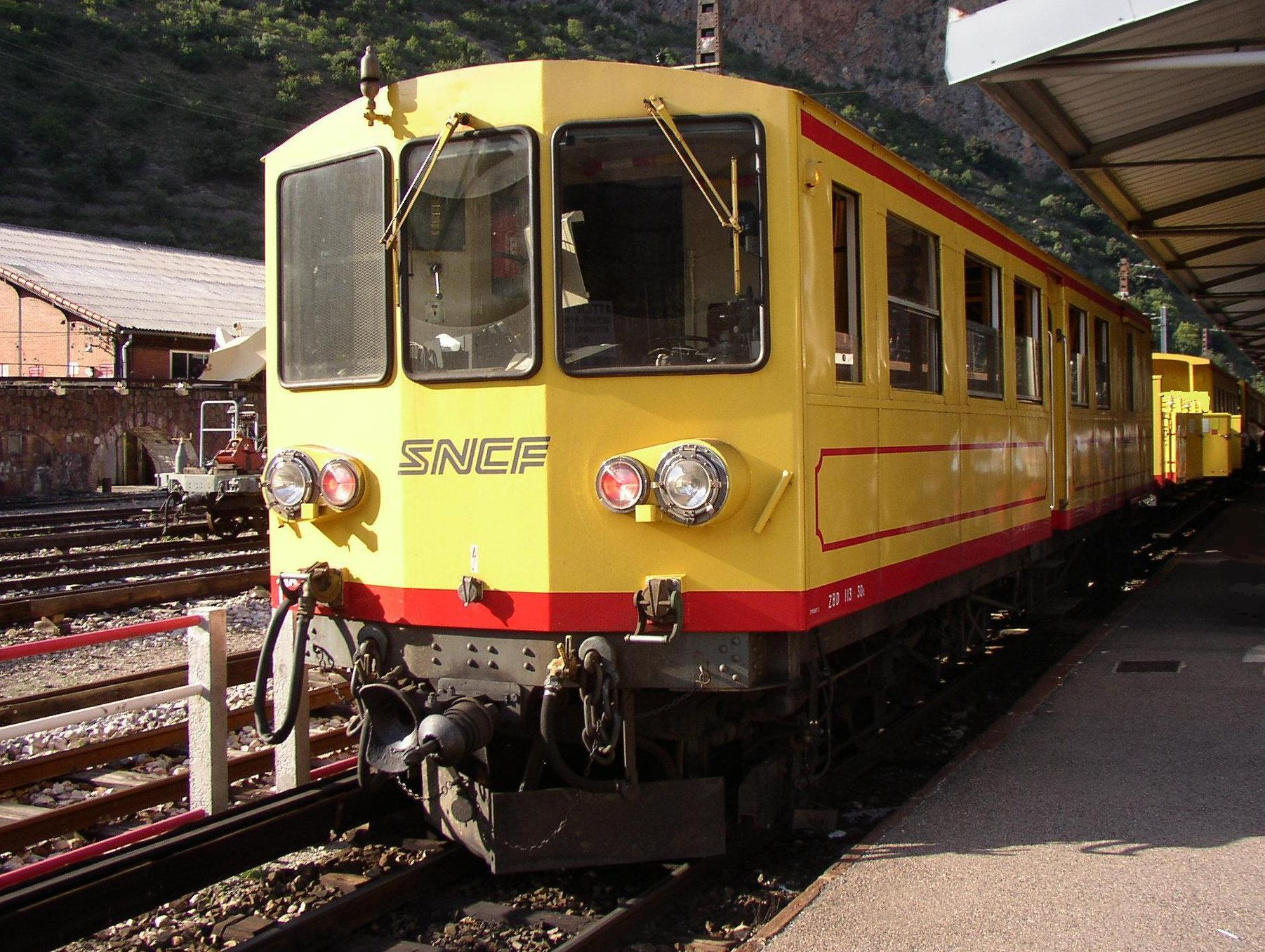 The regional yellow train stopped at the station of Villefranche - Vernet-les-Bains in the French Eastern Pyrenees.